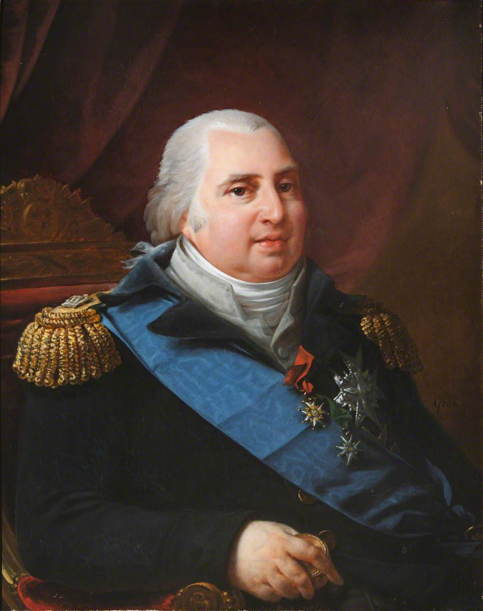 Portrait of king Louis XVIII of France (1755-1824)